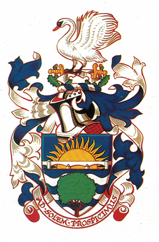 Spelthorne Council Crest